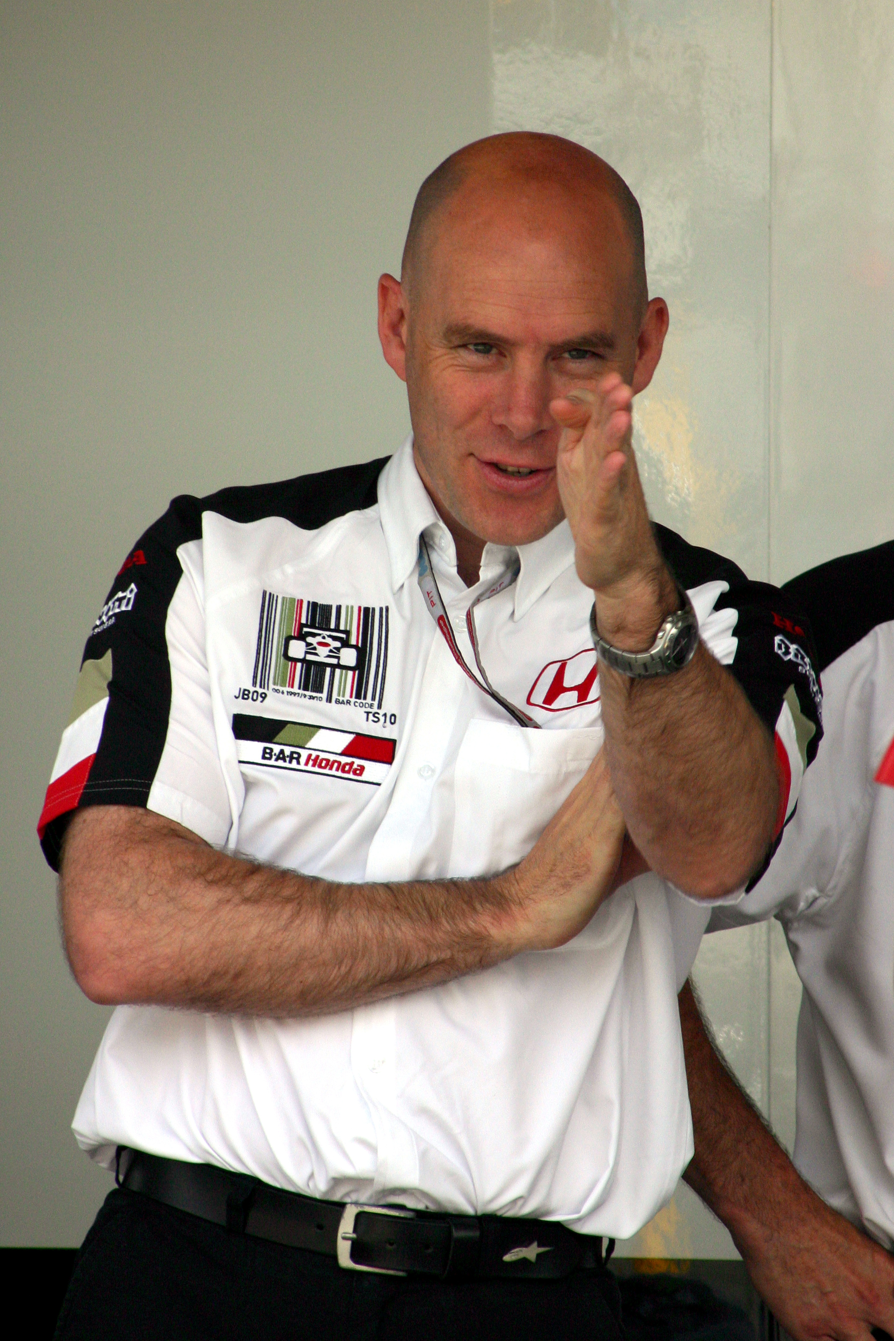 Jock Clear in the British American Racing garage at the 2004 United States Grand Prix at Indianapolis